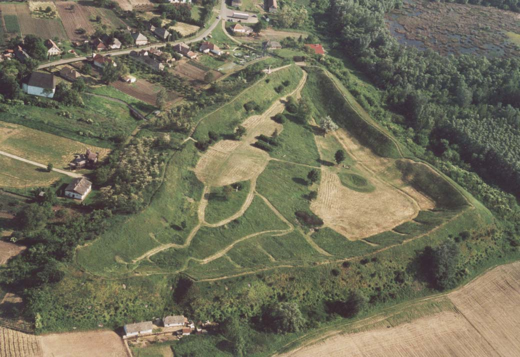 Earthwork - Szabolcs - Hungary - Europe